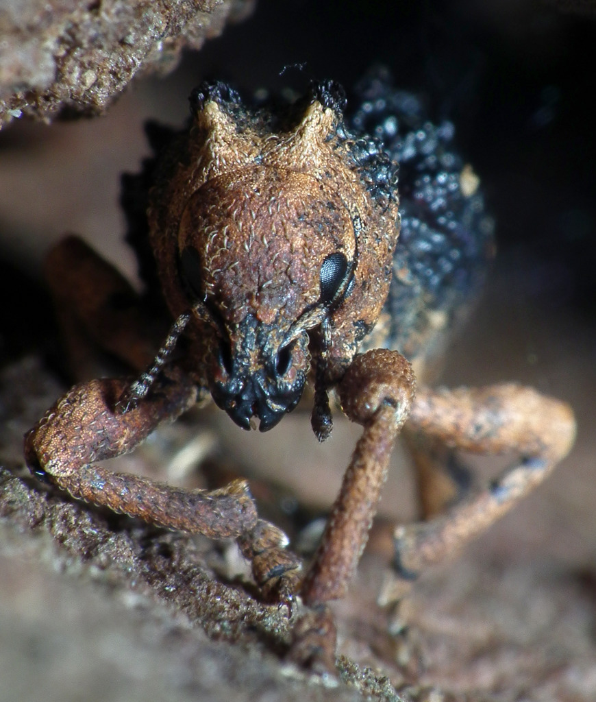 Black Brown Weevil (Aades cultratus) in Brisbane, Queensland, Australia